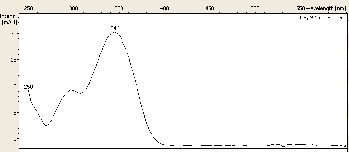 UV visible spectum of esculin